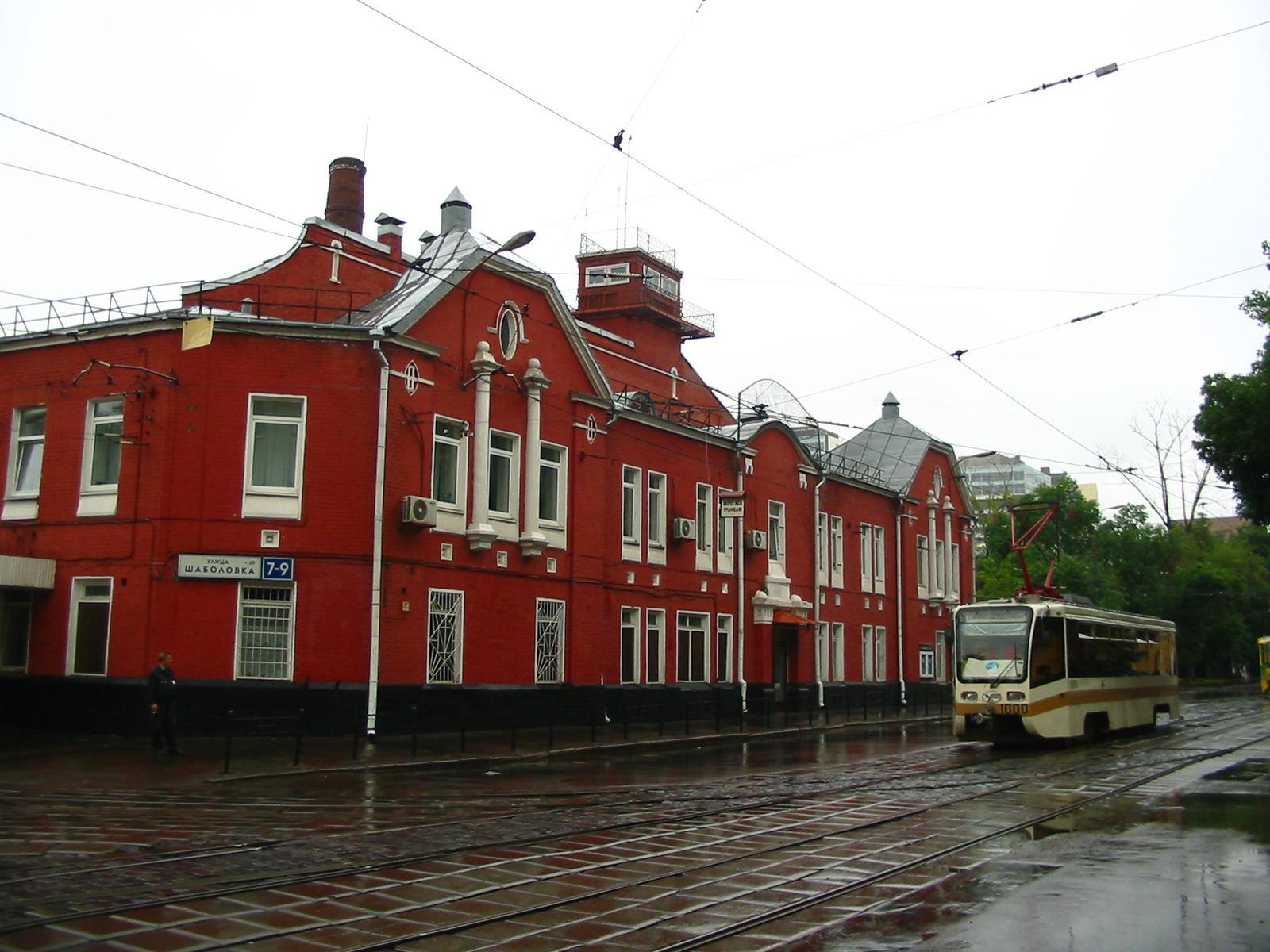 Class 71-621 by UKVZ. Simlar 71-619K, but with some shorter body for old sheds of Apakovskoye depot. Only one vehicle was produced.